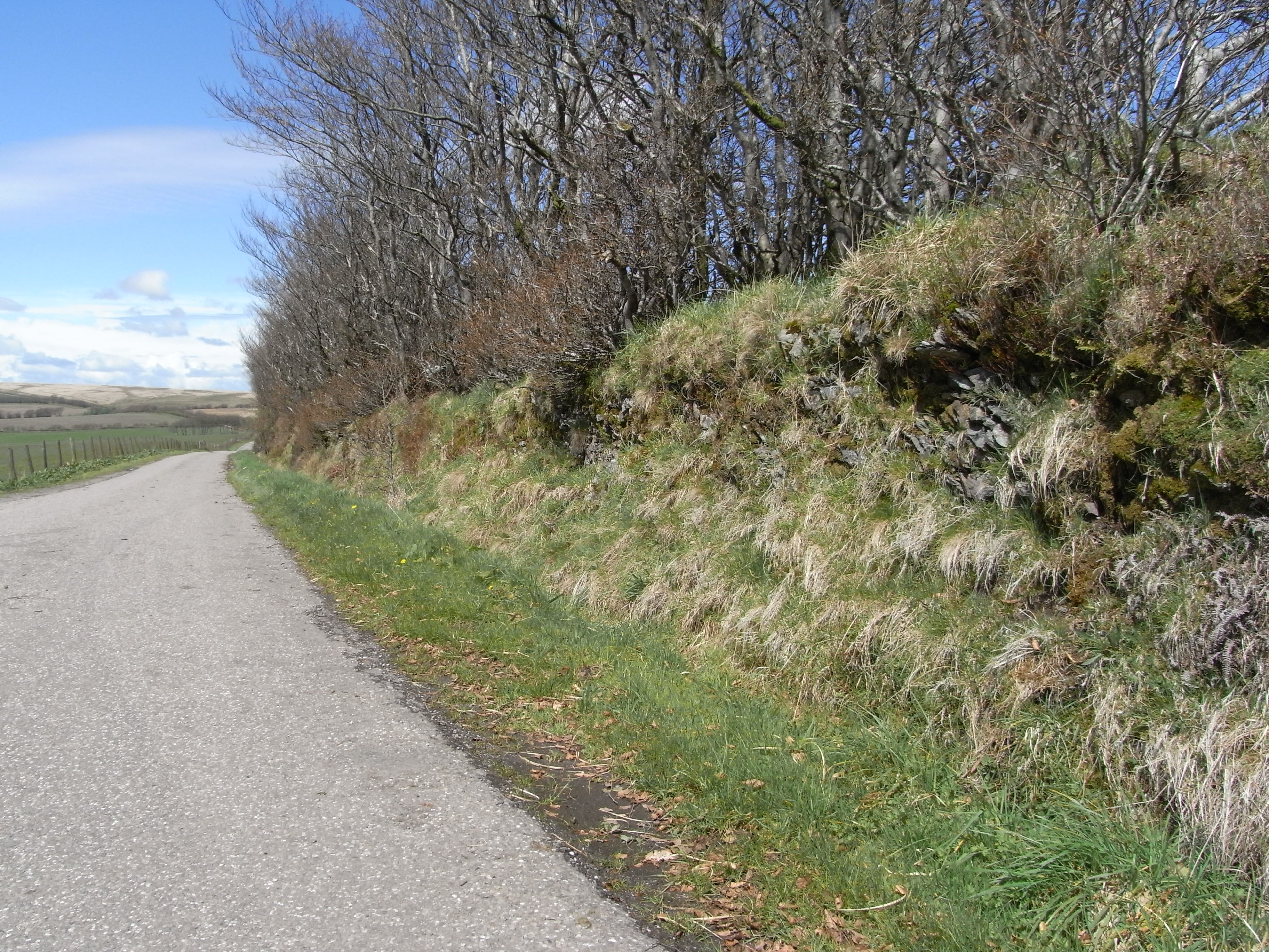 Hedgebank erected circa 1824 by John Knight (d.1850), who in 1818 purchased the Forest of Exmoor. This particularly well-preserved section is part of the 29 miles of stock-proof barrier he erected around his estate. It separates the Forest from the manor of North Molton, to the west (left). The road runs between Sandyway Cross and Kinsford Gate, the view here being towards Kinsford Gate. Made of earth with stone facing and planted on top with beech trees, regularly cut and laid every decade or so to form (in the days before barbed wire and wire netting) an impenetrable horizontal barrier to livestock.